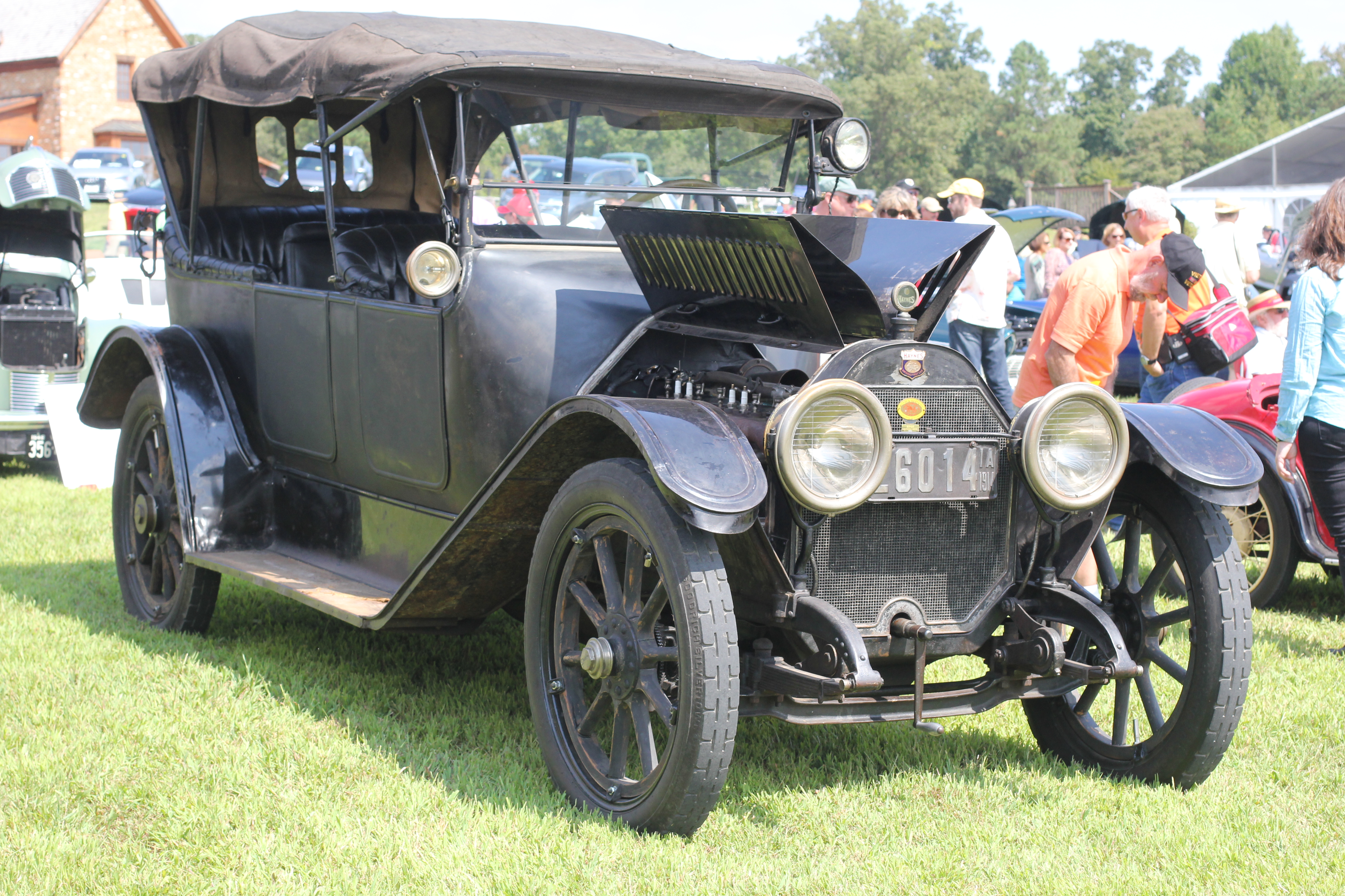 1914 Haynes Model 27 Seven Passenger TouringClassics on the Green, New Kent Virginia, USA. 20 September 2015